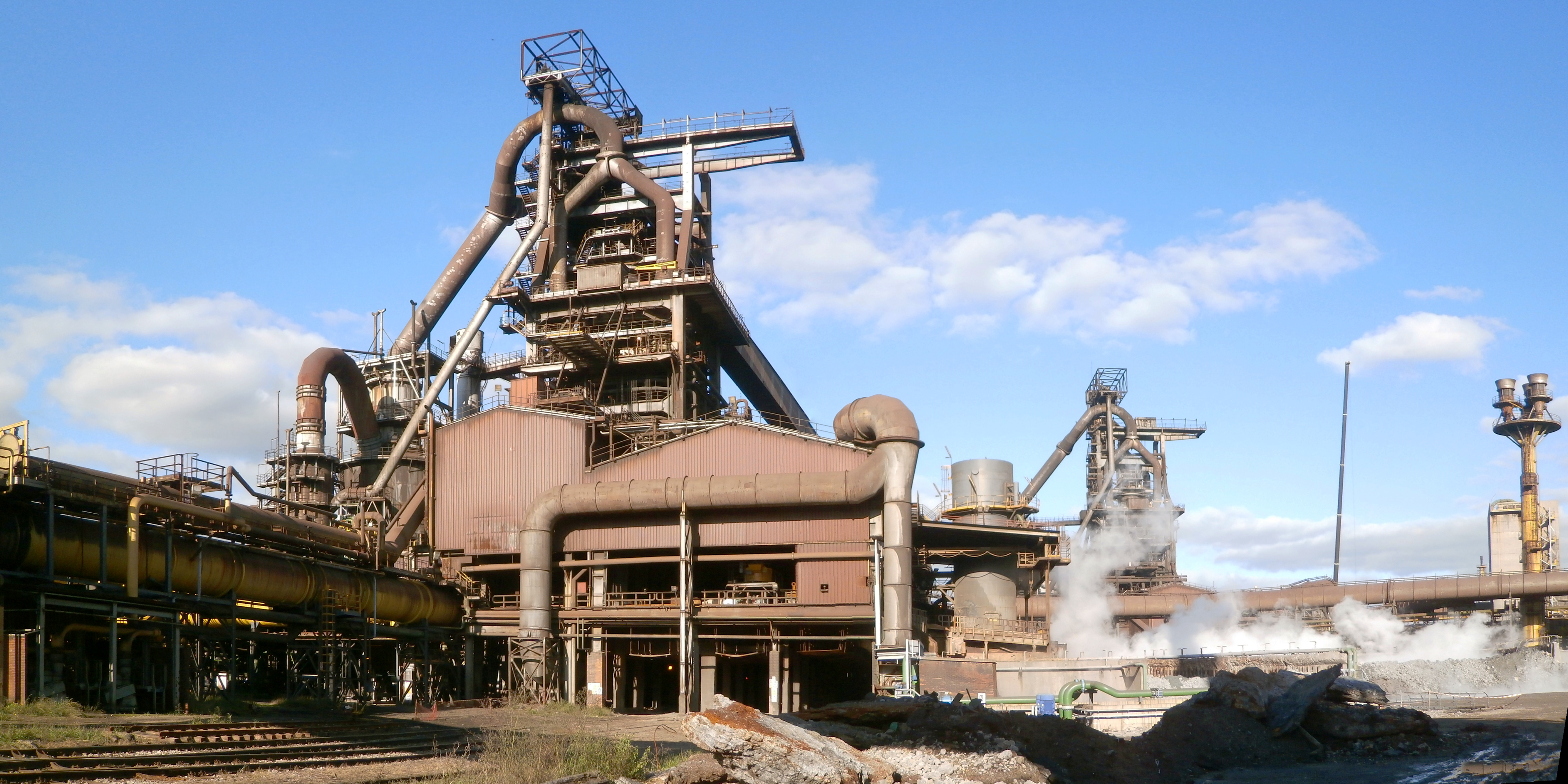 Gijón blast furnaces, Spain (ArcelorMittal). Panorama created with Hugin from 2 wide angle pictures (Olympus Stylus D-765).